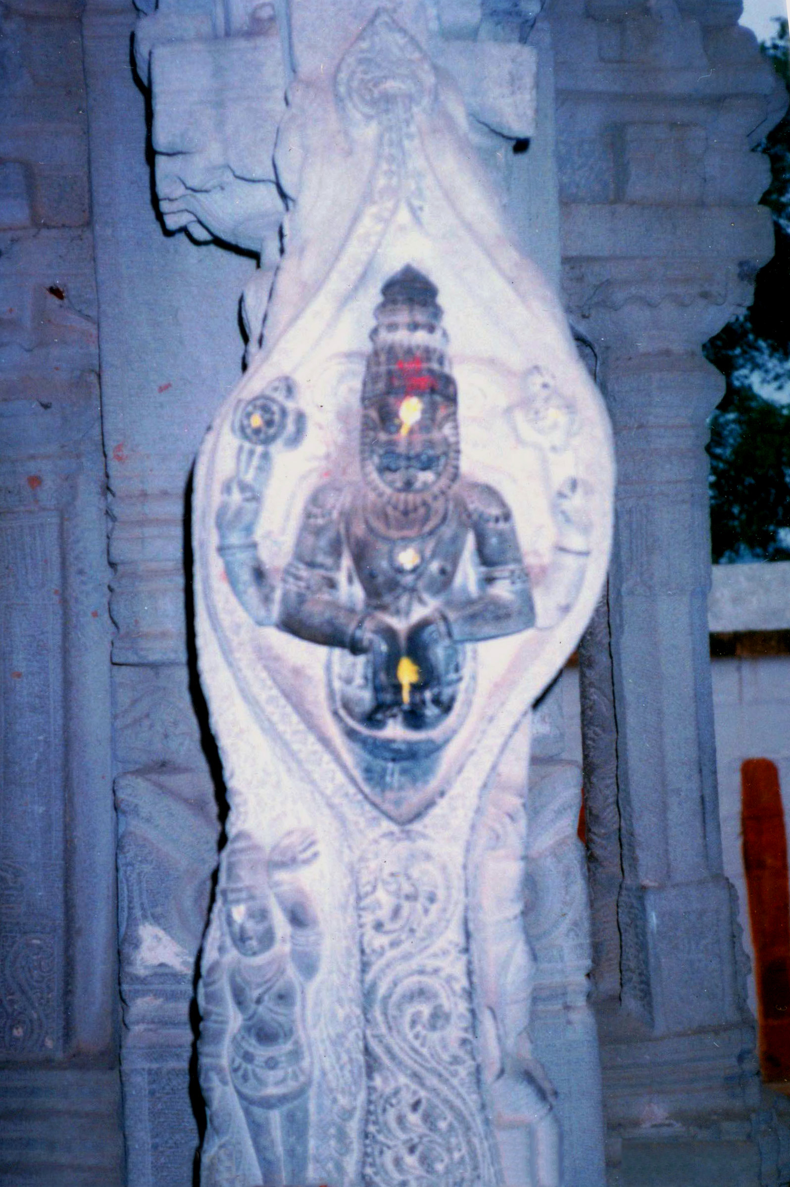 A pillar with Lord Narasimha emerging out posture in Ahobilam